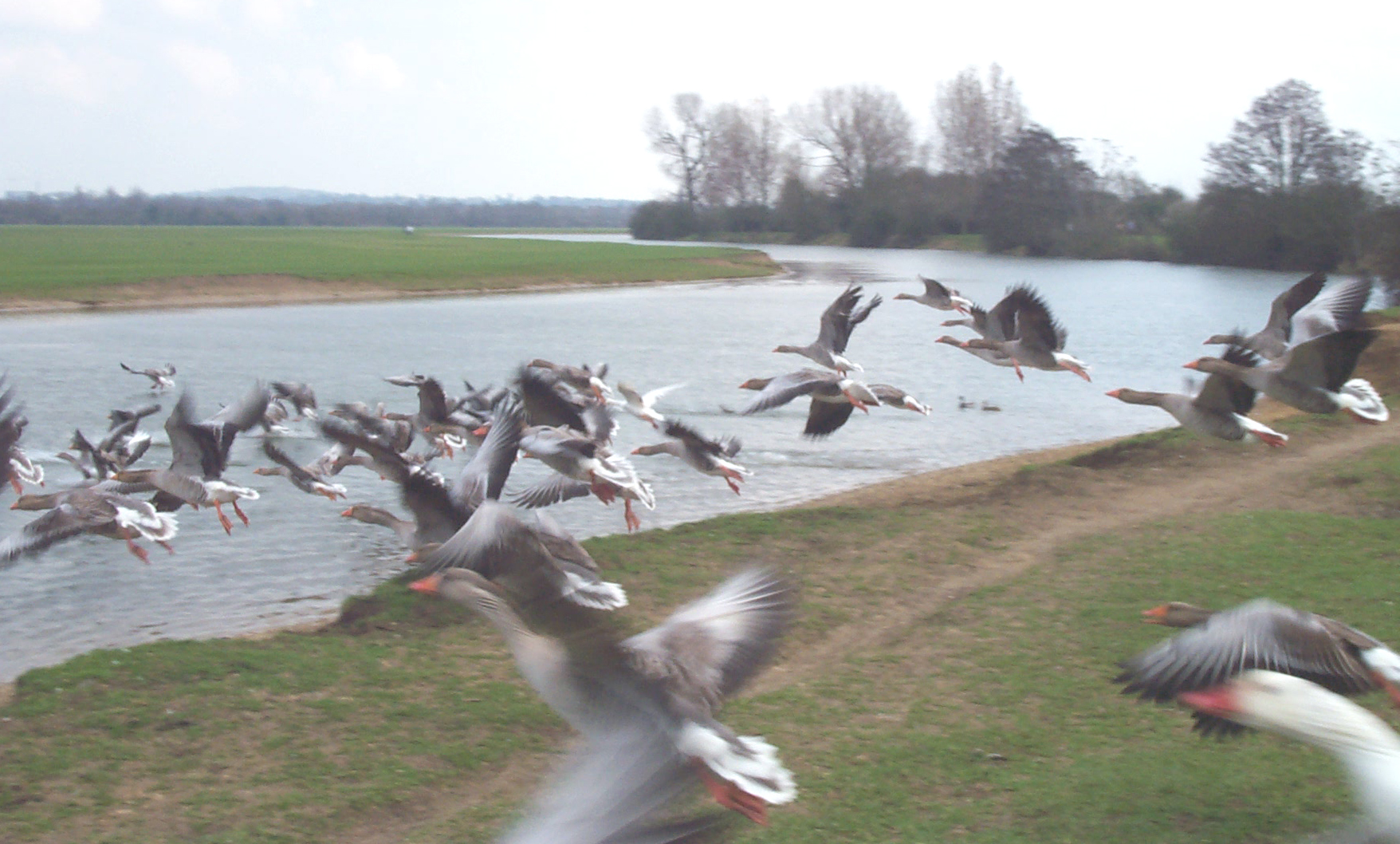 Modified version of Image:GeeseFlyingOxford20050326 CopyrightKaihsuTai.jpg